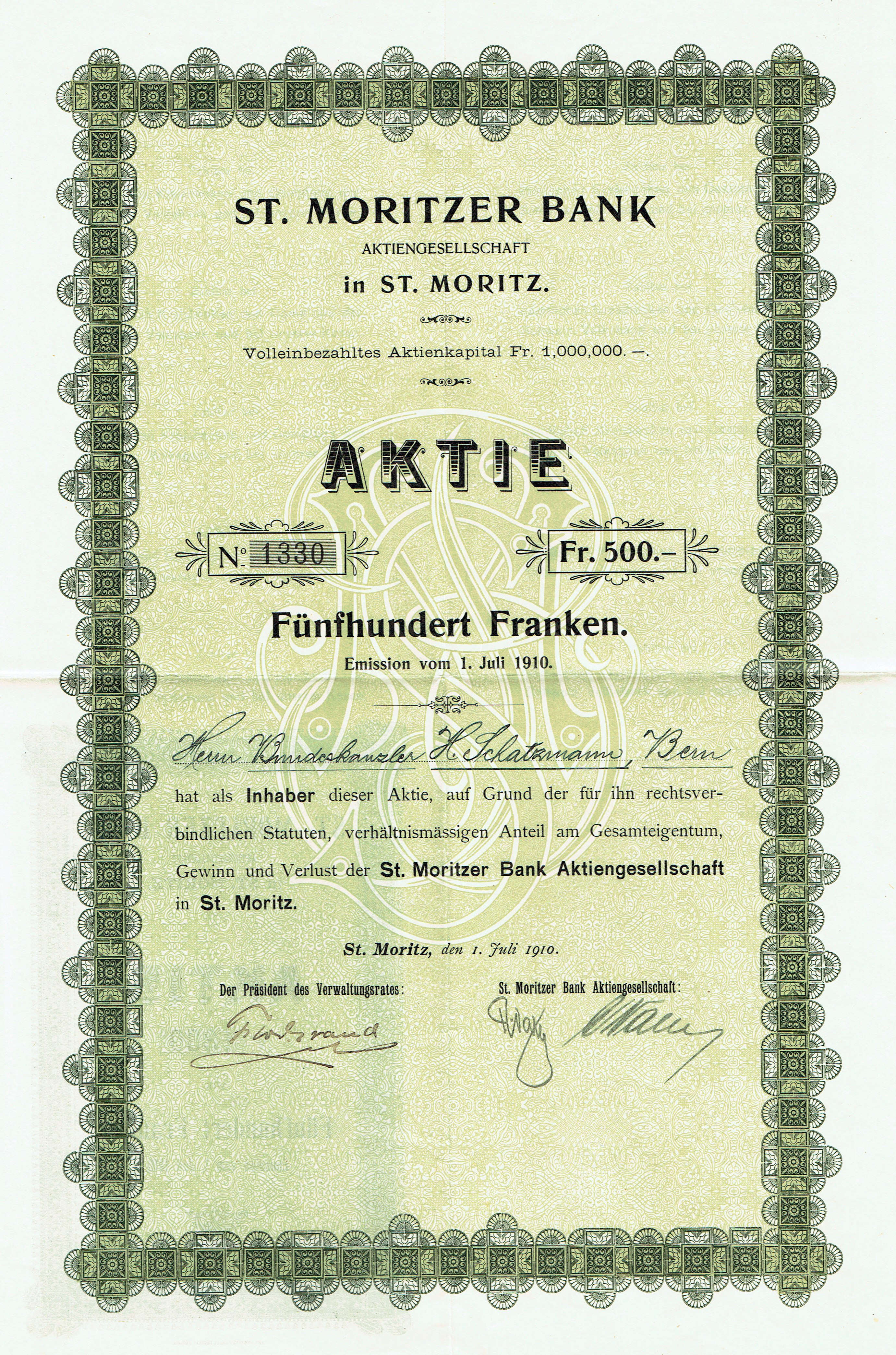 Share of the St. Moritzer Bank, issued 1. July 1910